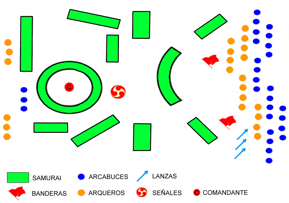 Samurai formation called "Koyaku", used during Azuchi-Momoyama period of japanese history.